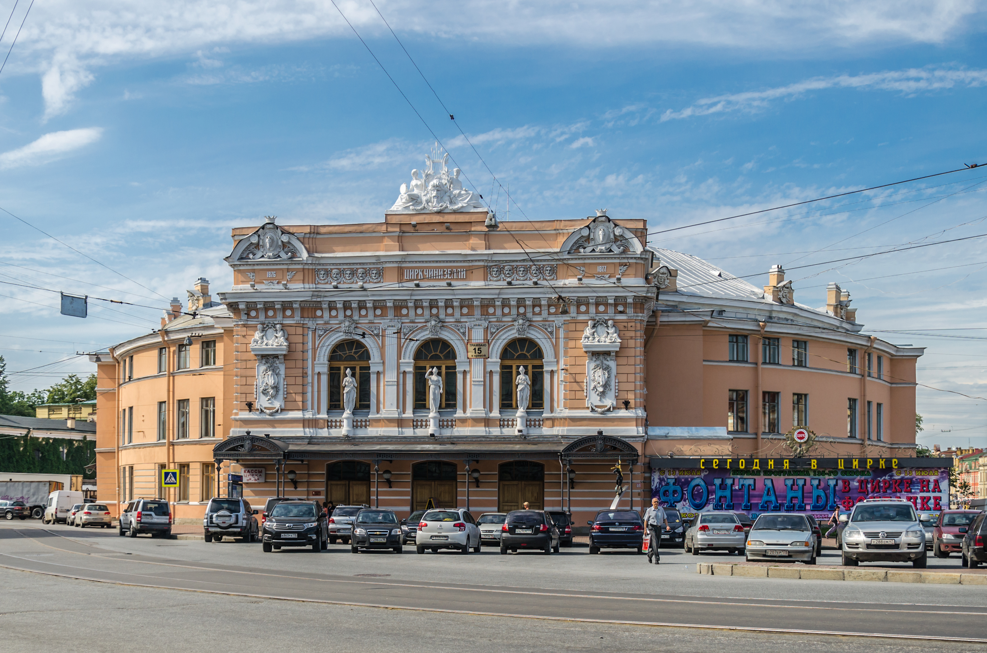 Ciniselli Circus in Saint Petersburg